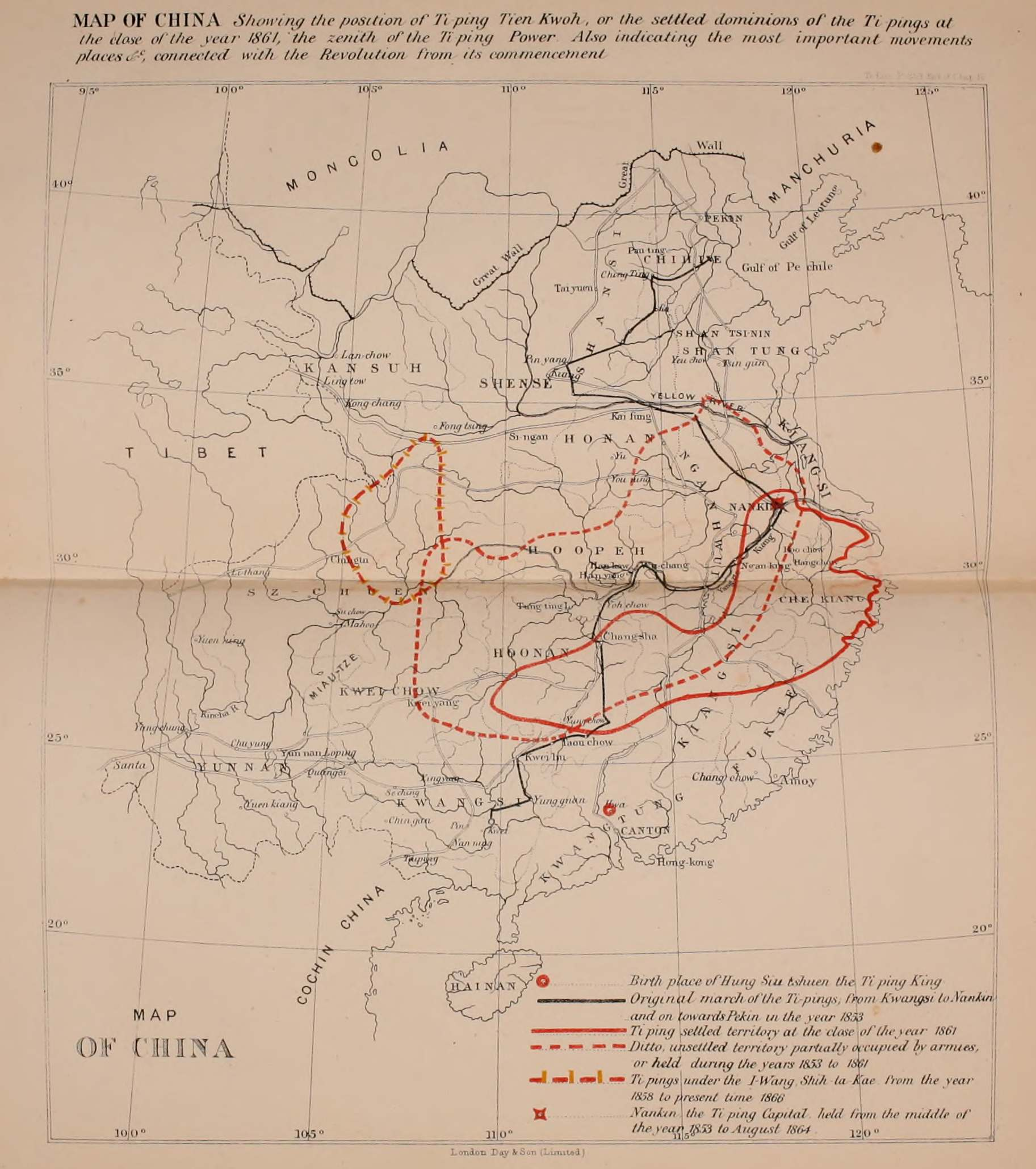 map of the Taiping Rebellion from Ti-ping tien-kwoh: The History of the Ti-Ping Revolution (1866) by Augustus Frederick Lindley